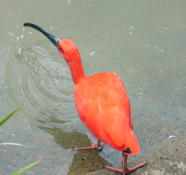 I took this photo of a scarlet ibis while on a trip to SeaWorld California. Use of this photo is permitted provided that adequate credit is given. The camera used was an Olympus FE-115 digital camera, and was touched up in Photoshop to correct the color.